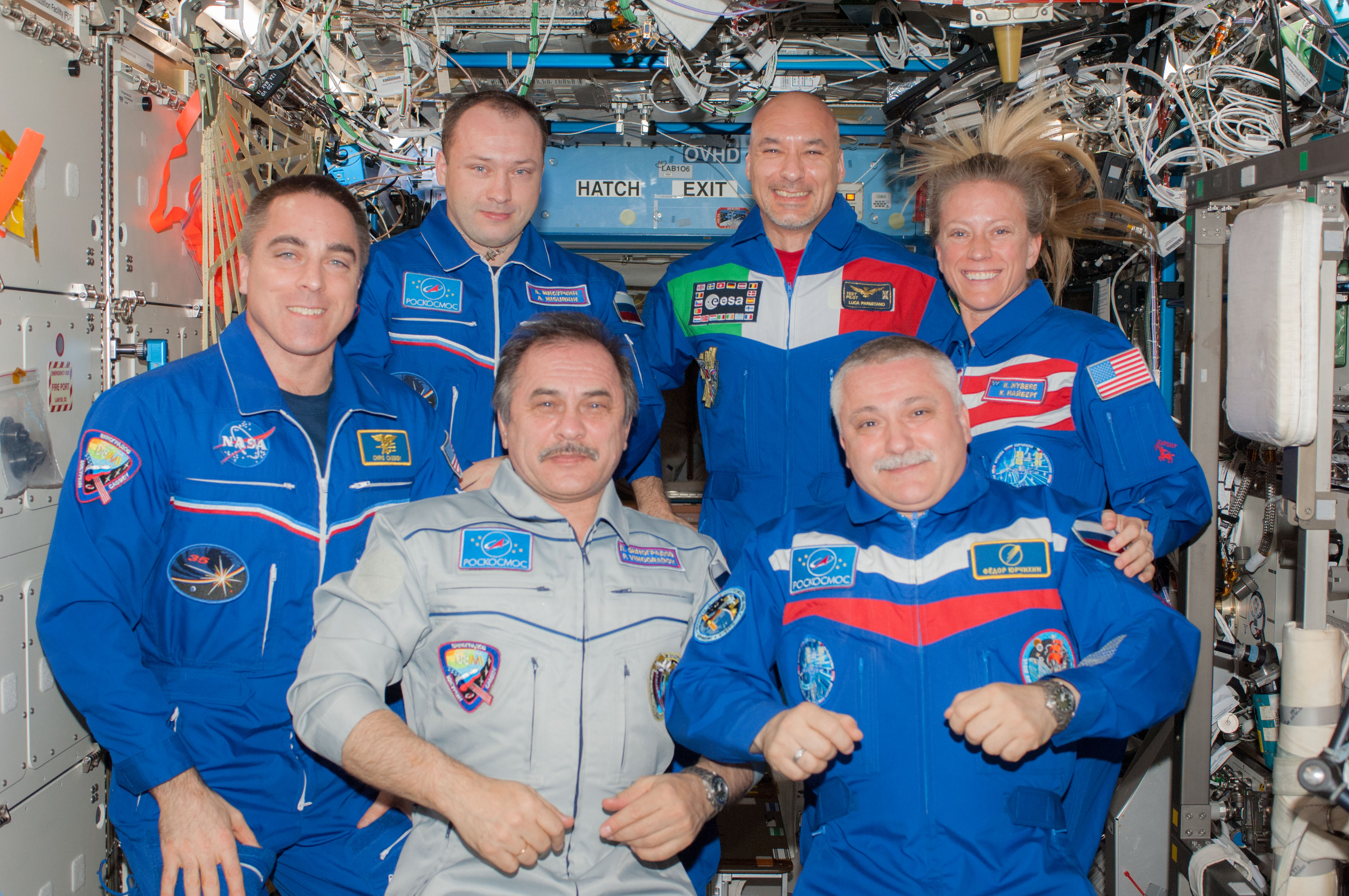 Expedition 35/36 and Expedition 36/37 crew members pose for a group portrait in the International Space Station's Destiny laboratory following the ceremony of changing-of-command from Expedition 36 to Expedition 37. Pictured on the front row (from the left) are NASA astronaut Chris Cassidy, Expedition 36 flight engineer; Russian cosmonaut Pavel Vinogradov, Expedition 36 commander; and Russian cosmonaut Fyodor Yurchikhin, Expedition 37 commander. Pictured on the back row (from the left) are Russian cosmonaut Alexander Misurkin, Expedition 36 flight engineer; European Space Agency astronaut Luca Parmitano and NASA astronaut Karen Nyberg, both Expedition 37 flight engineers.